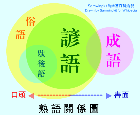 熟語關係圖Relation diagram of Chinese idiomatic phrases.